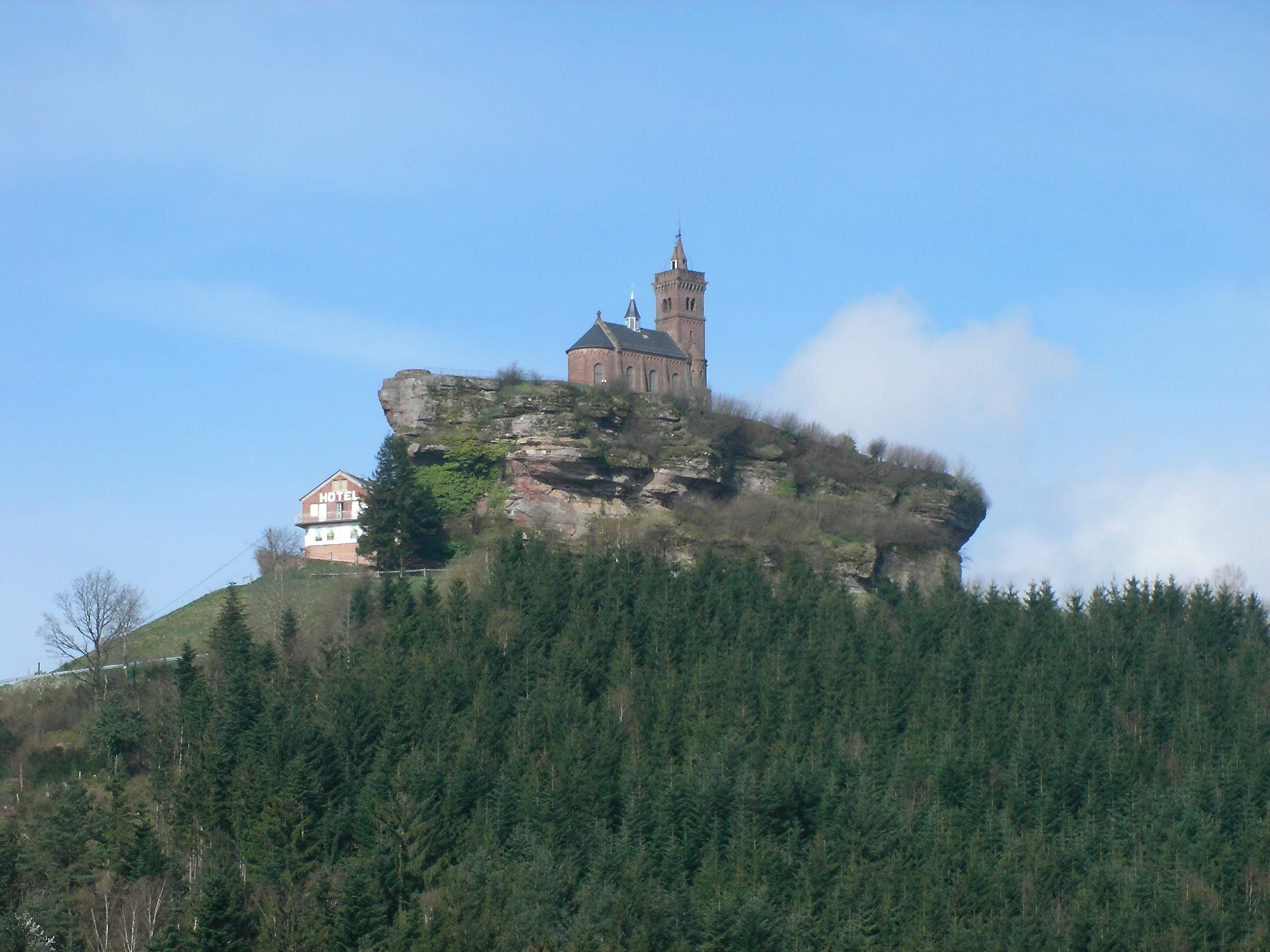 Saint-Léon Chapel in Dabo (Bas-Rhin, France).